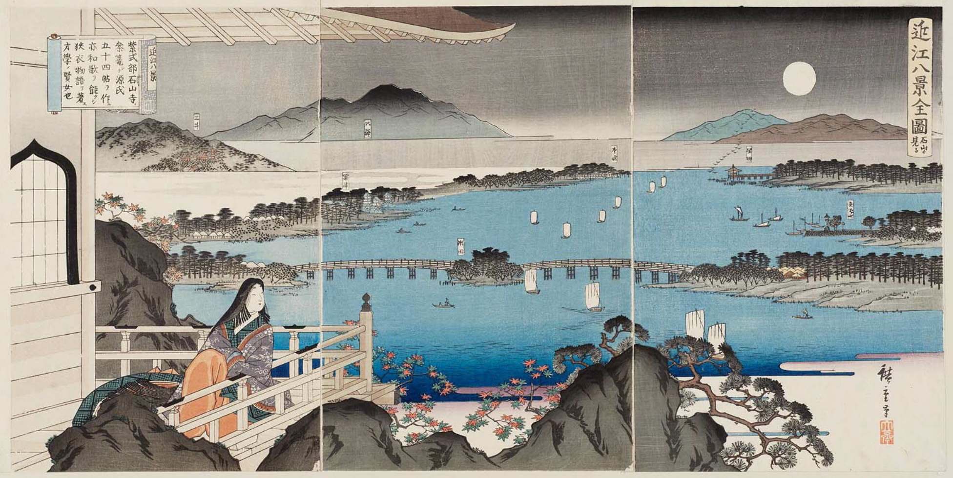 This is the left panel (there are 3 panels) of: "Eight Views of Omi Province as Seen from Ishiyama" (Ômi hakkei zenzu, Ishiyama yori miru). Murasaki Shikibu at Ishiyama Temple.